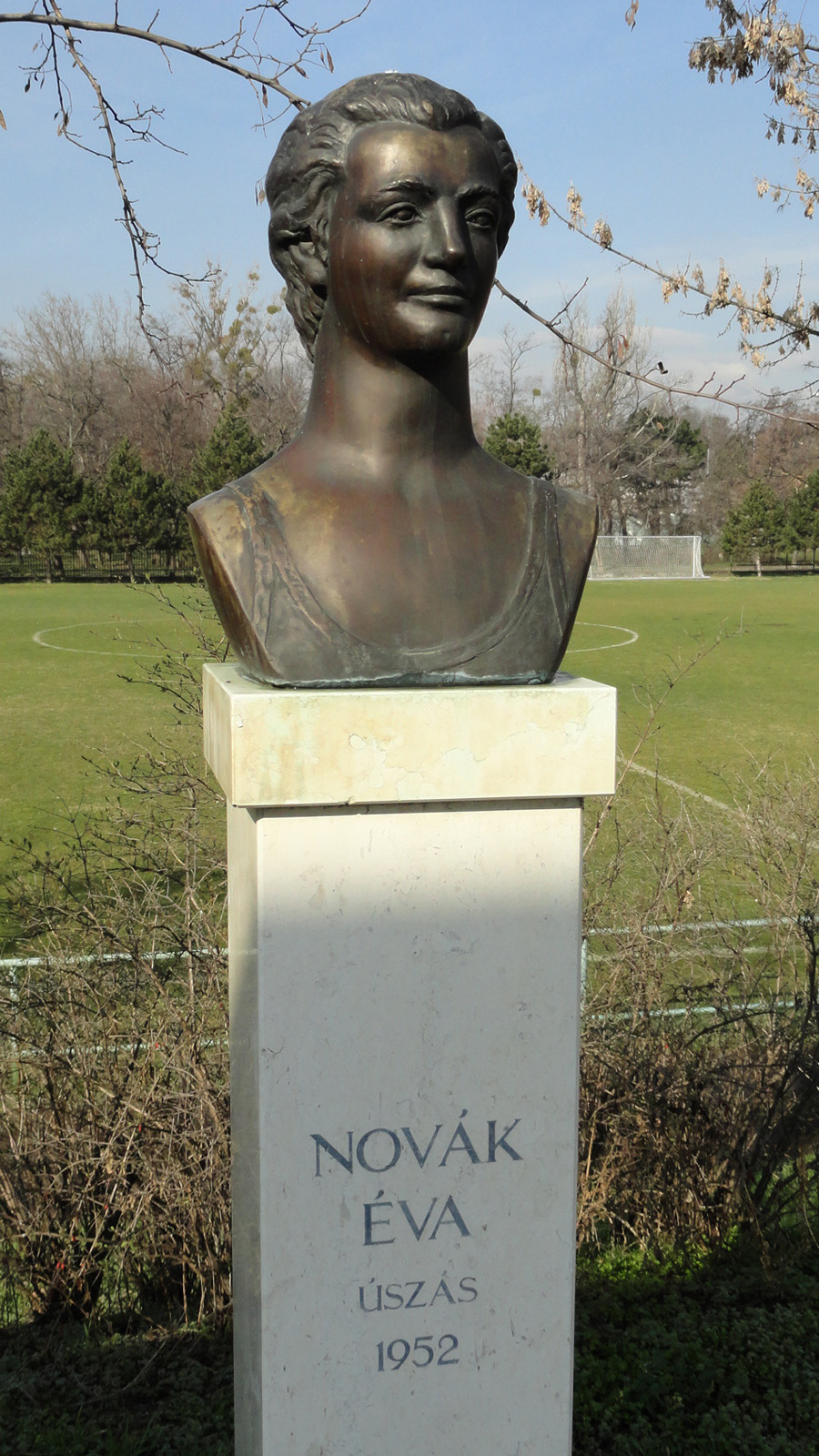 Éva Novák, hungarian swimmer. 1952 Summer Olympics - Gold Medal Winner